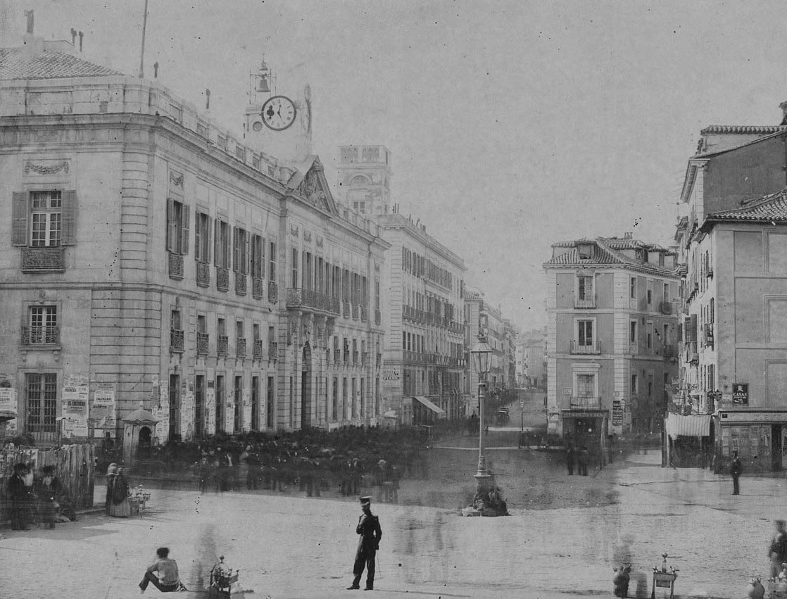 Puerta del Sol Madrid 1857